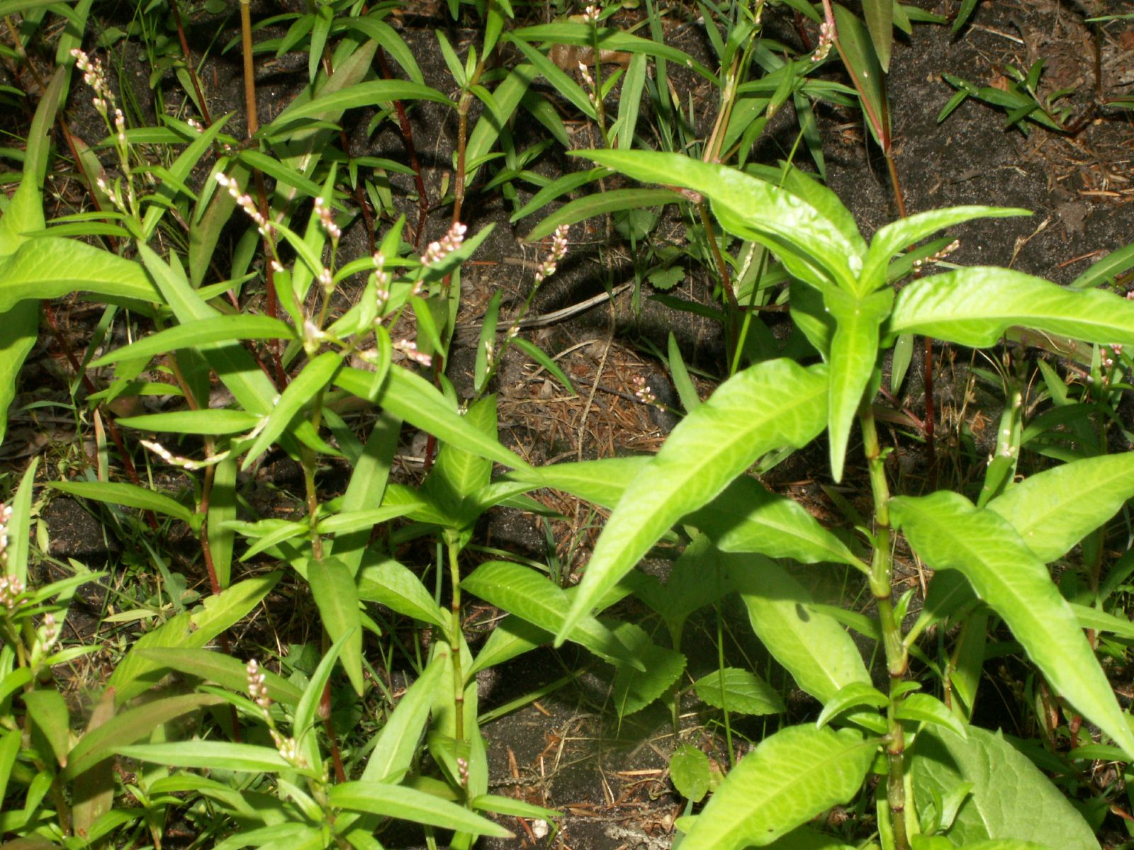 Persicaria minor (small leaves) and P. lapathifolia (larger leaves) (Feuchter Standort, Litauen)